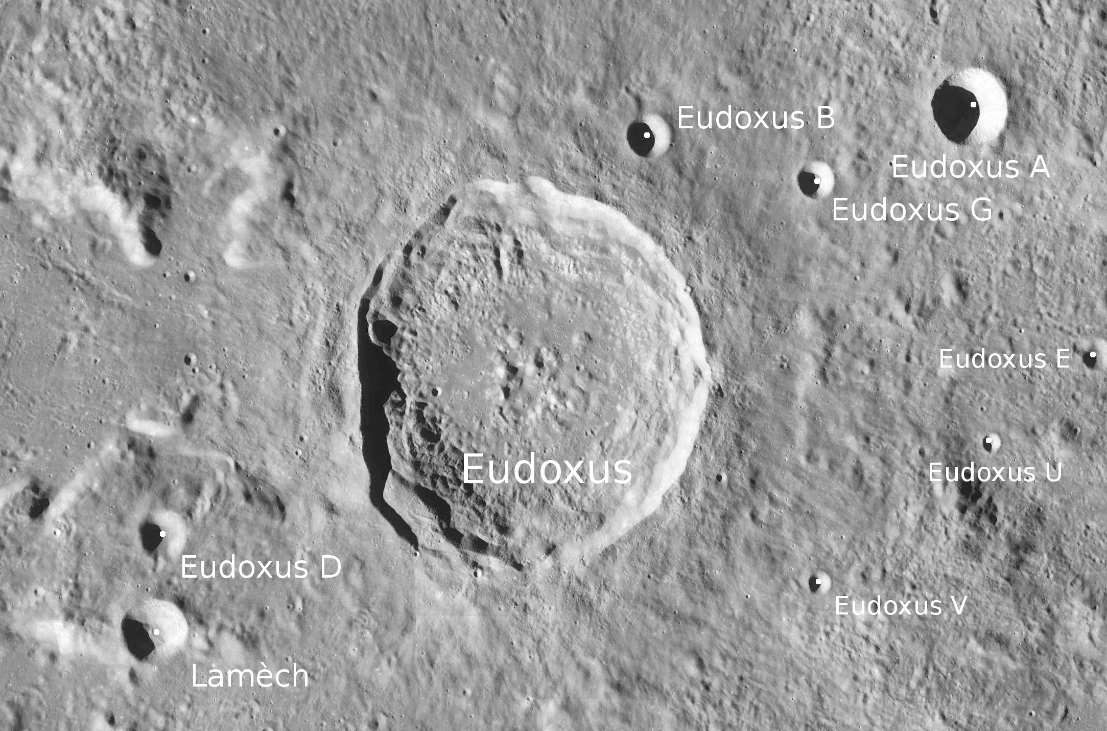 Crater Eudoxus with satellite features and crater Lamèch (detail of LRO - WAC global moon mosaic; Mercator projection)